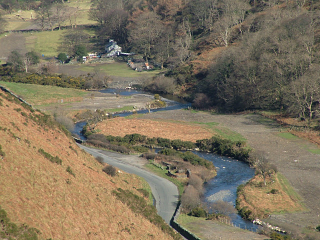 Sulby Glen - Isle of Man. The Sulby River winds itself back and forth across the width of the glen here, viewed from the hilltops above.